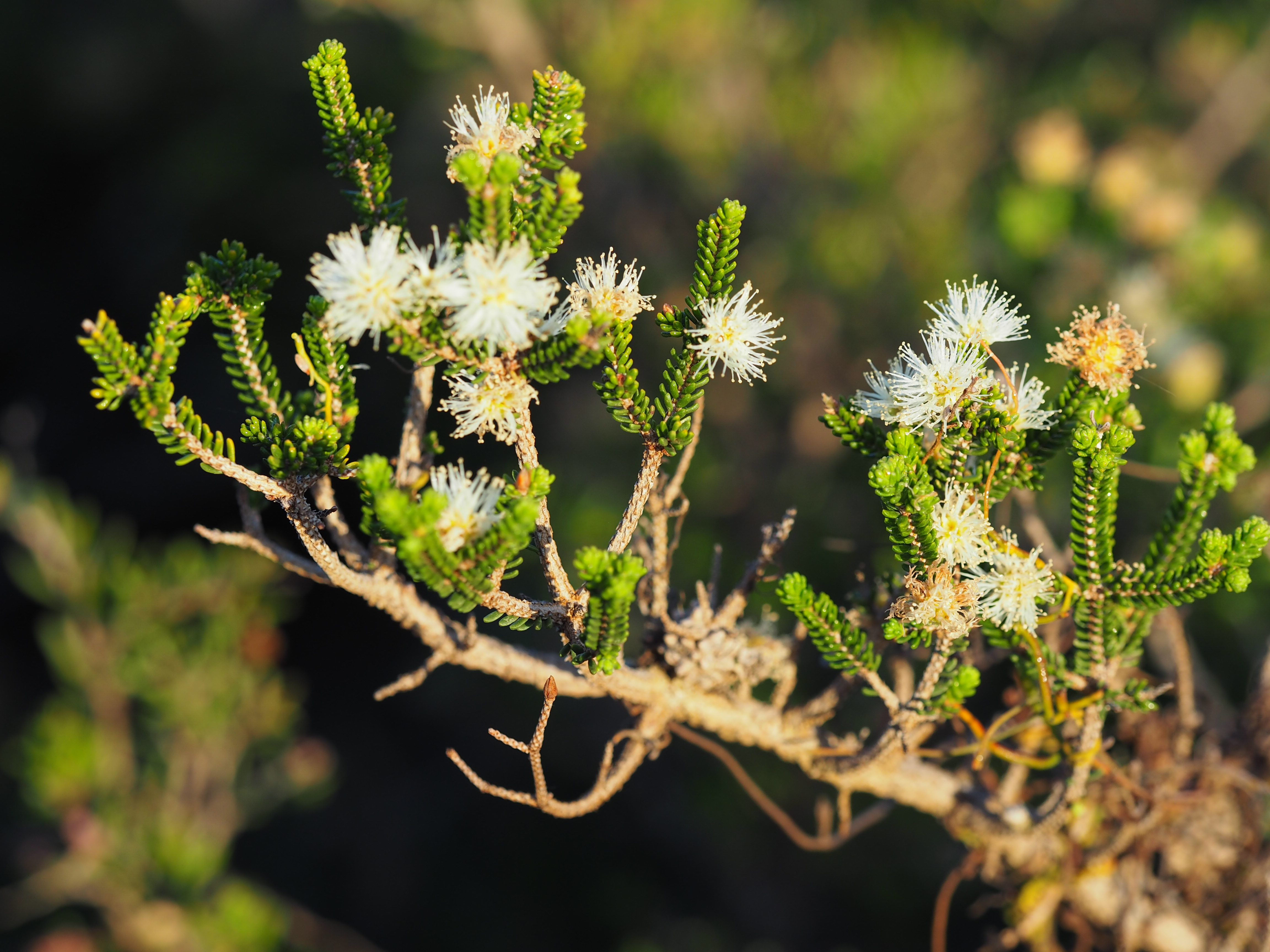 Melaleuca araucarioides at Cape Riche